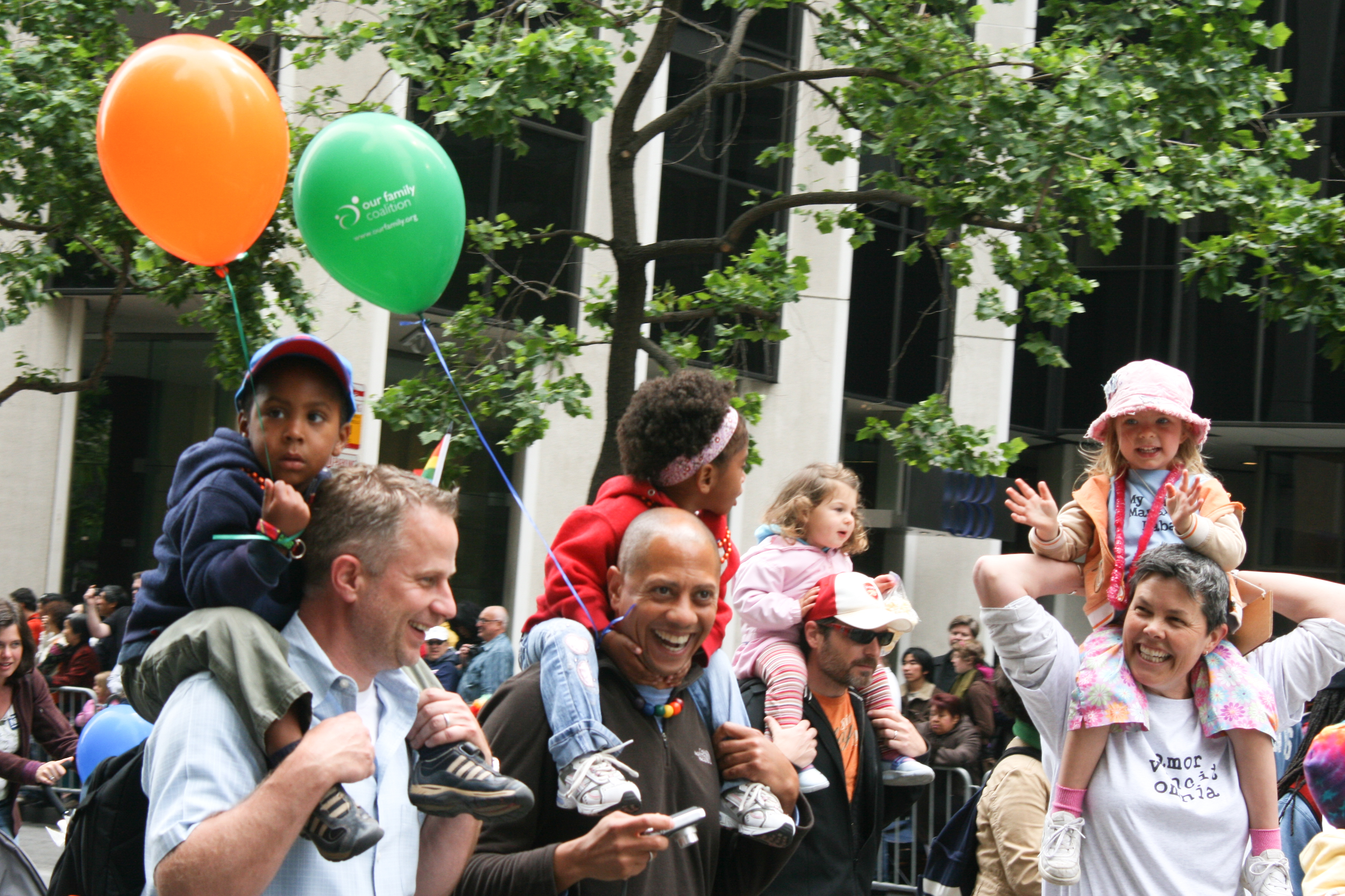 Taken at the San Francisco Pride Parade gay pride, picture of moms, dads, gay parents